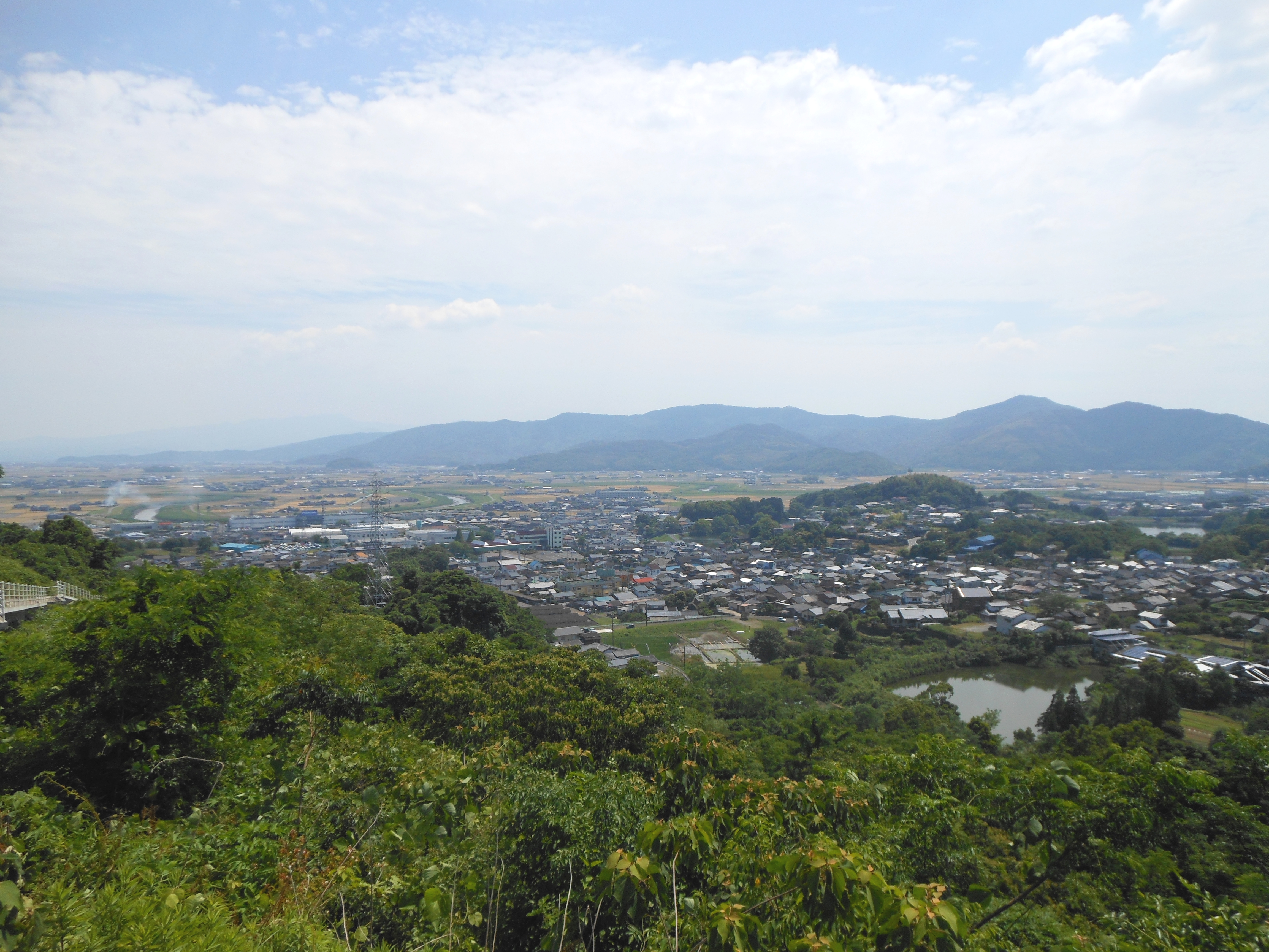 Center of Omachi town, Rokkaku River and Mount Kishima from Botayama Wanpaku Park.